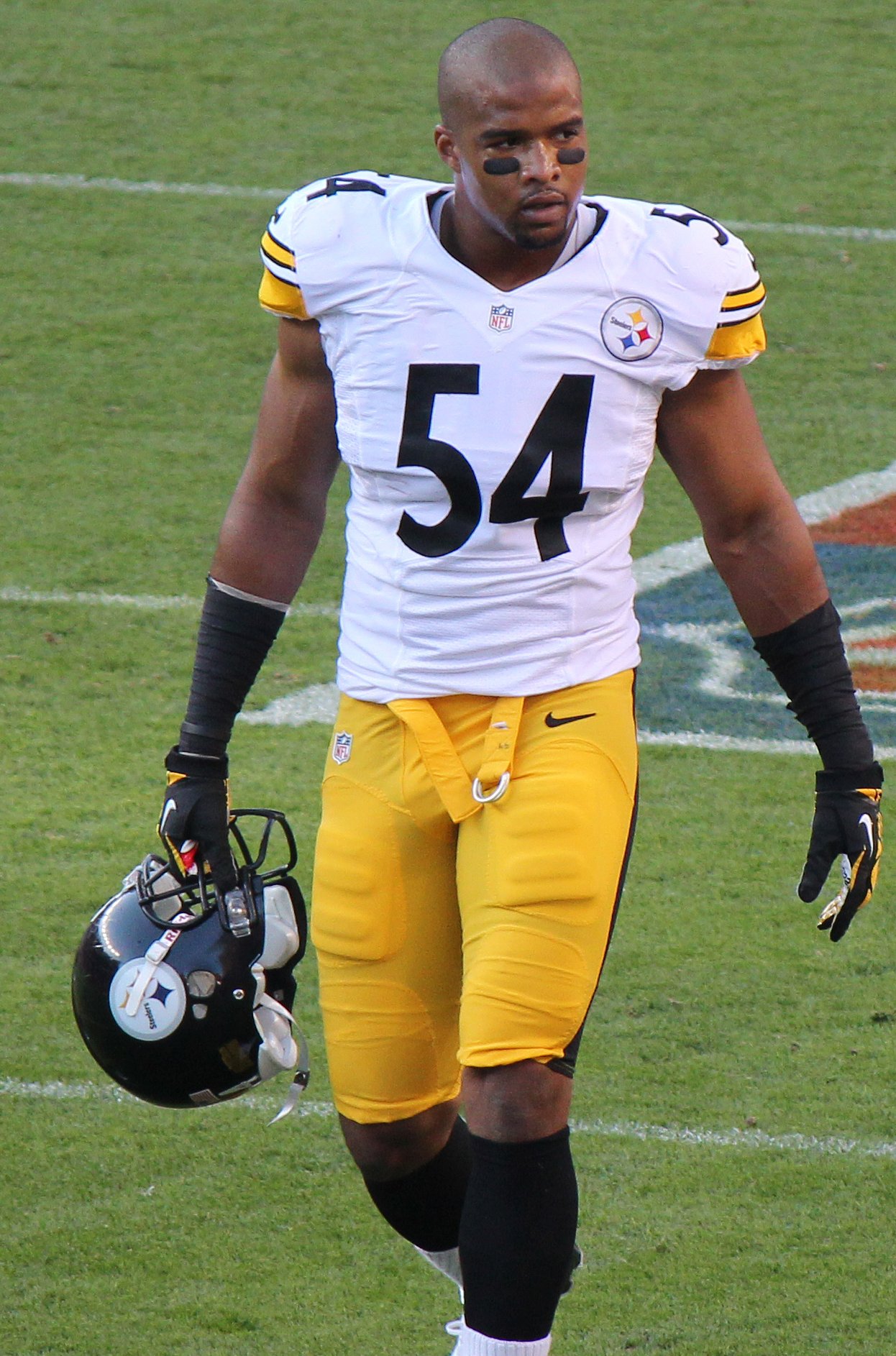 Chris Carter, a player on the National Football League.